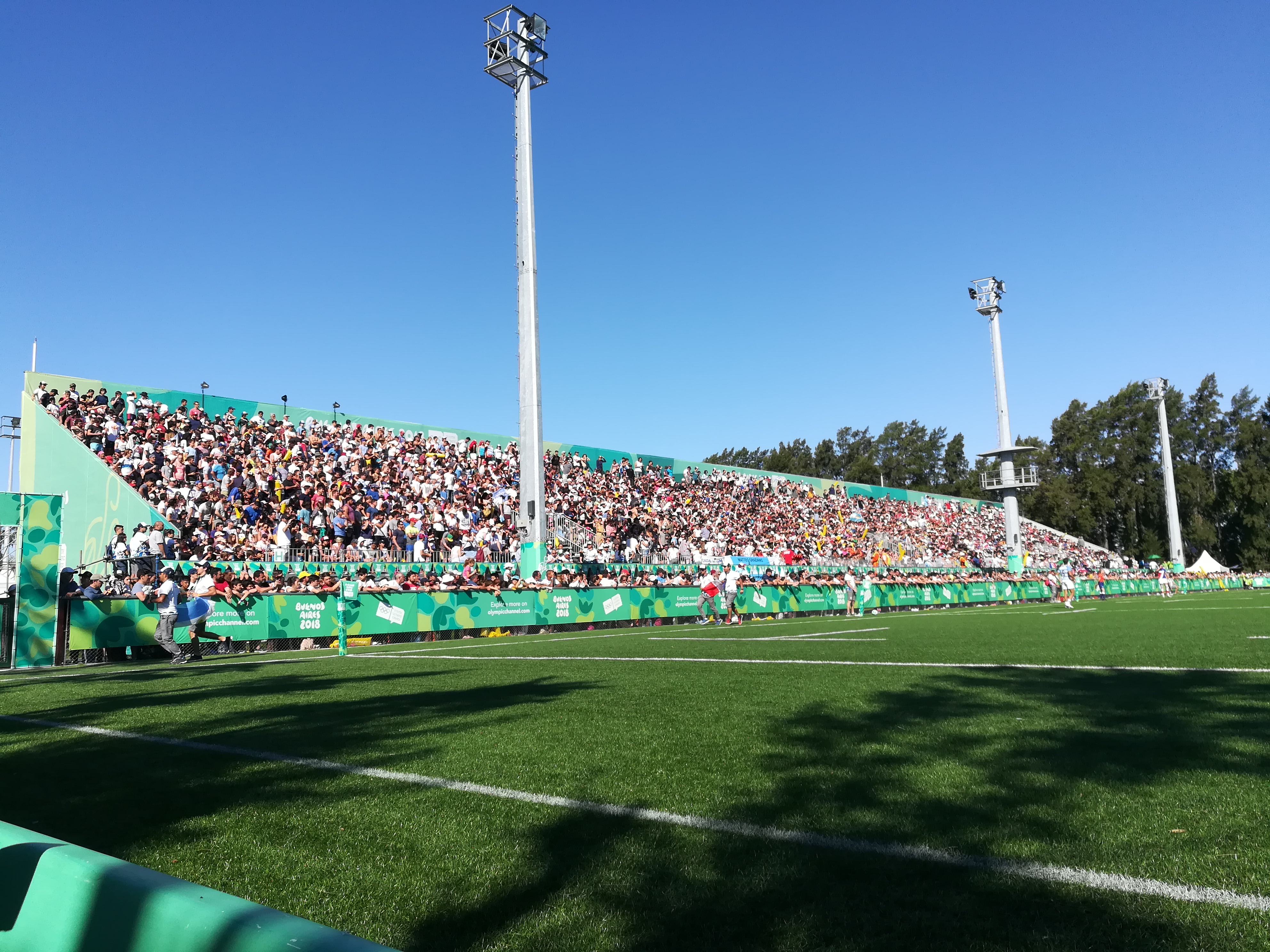 Crowds of spectactor at the rugby sevens venue of the 2018 Summer Youth Olympics.